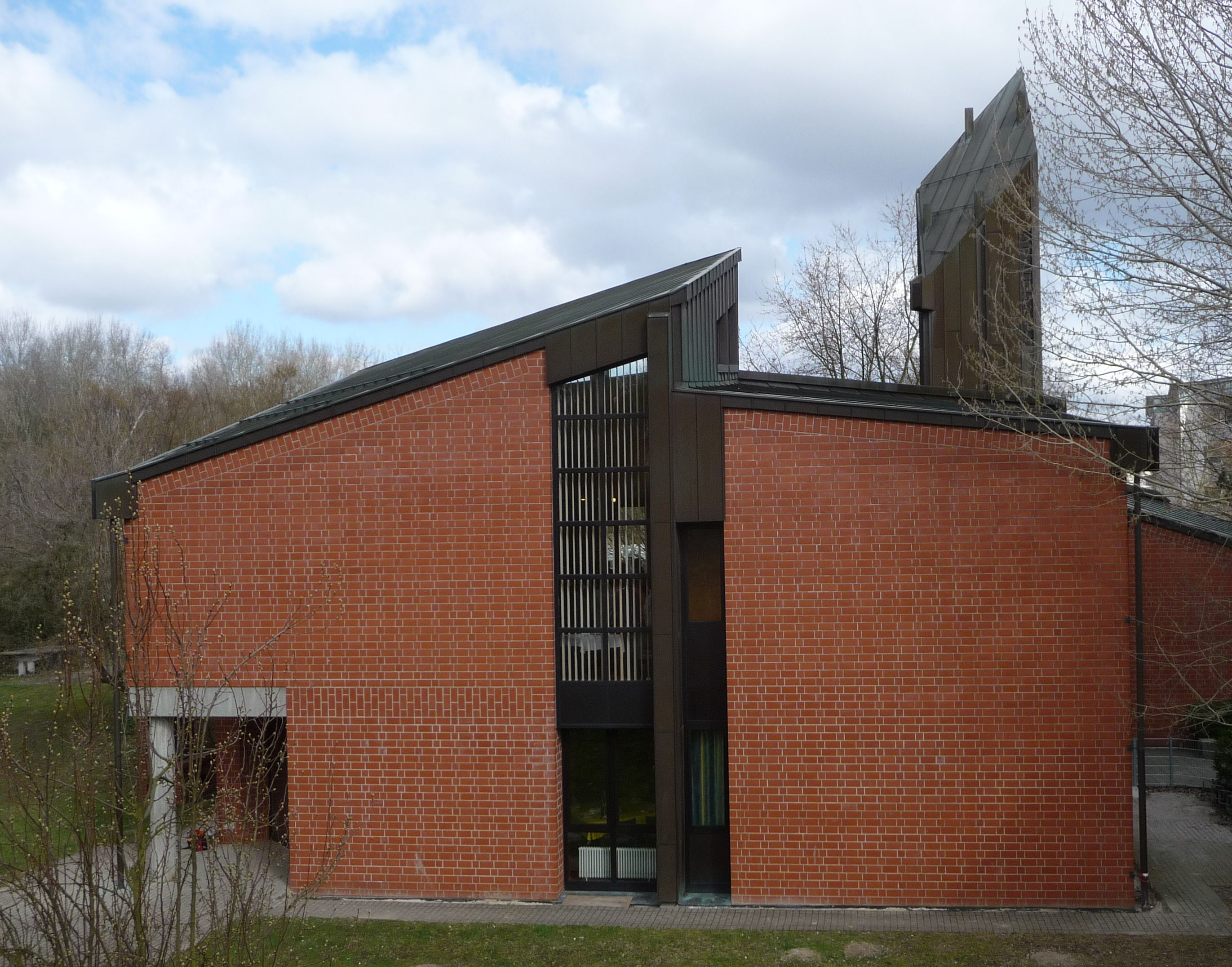 Church in Ludwigshafen, Germany